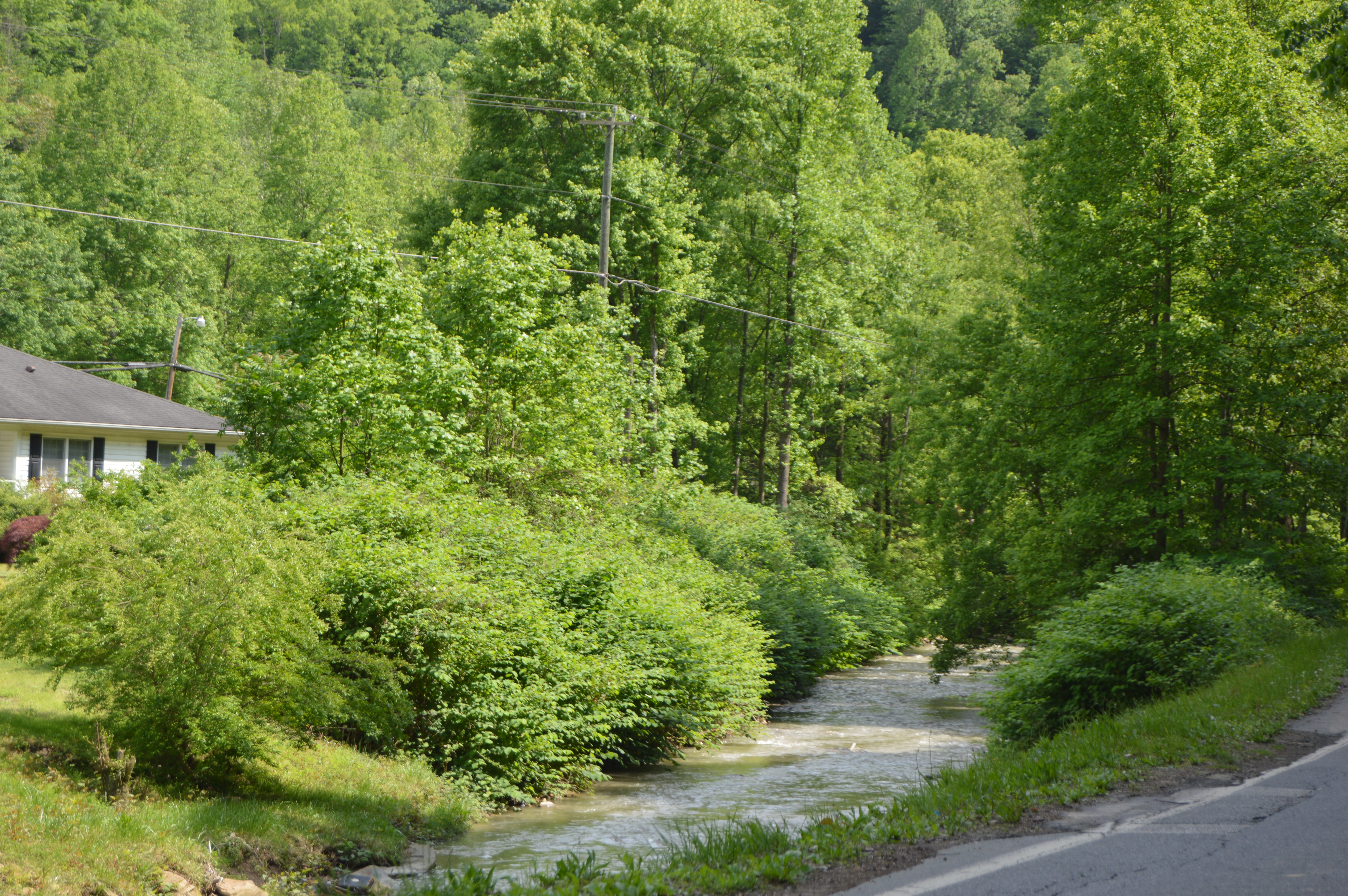 Looking downstream along Mate Creek from West Virginia Route 65 between Red Jacket and Matewan in Mingo County, West Virginia, United States.